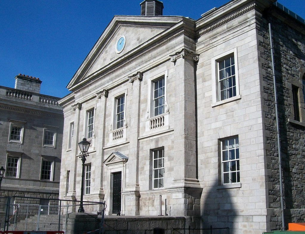 The Dining Hall, Trinity College. The Dining Hall has a history of misfortune. The original, designed and built by Richard Cassels in the 1740s, was twice badly damaged by the collapse of its vaults. It was then replaced in 1760 by the present building, the work of Hugh Darley. Bad luck struck again in 1984 when it was severely damaged by a fire. The Dining Hall has since been restored. It used for formal dining.